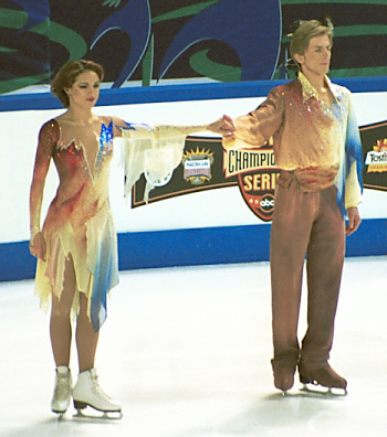 Margarita Drobiazko and Povilas Vanagas before the beginning of their free dance at the 2001 Grand Prix Final in Kitchener, Ontario. Photo taken by me, Vesperholly 05:29, 17 July 2006 (UTC)